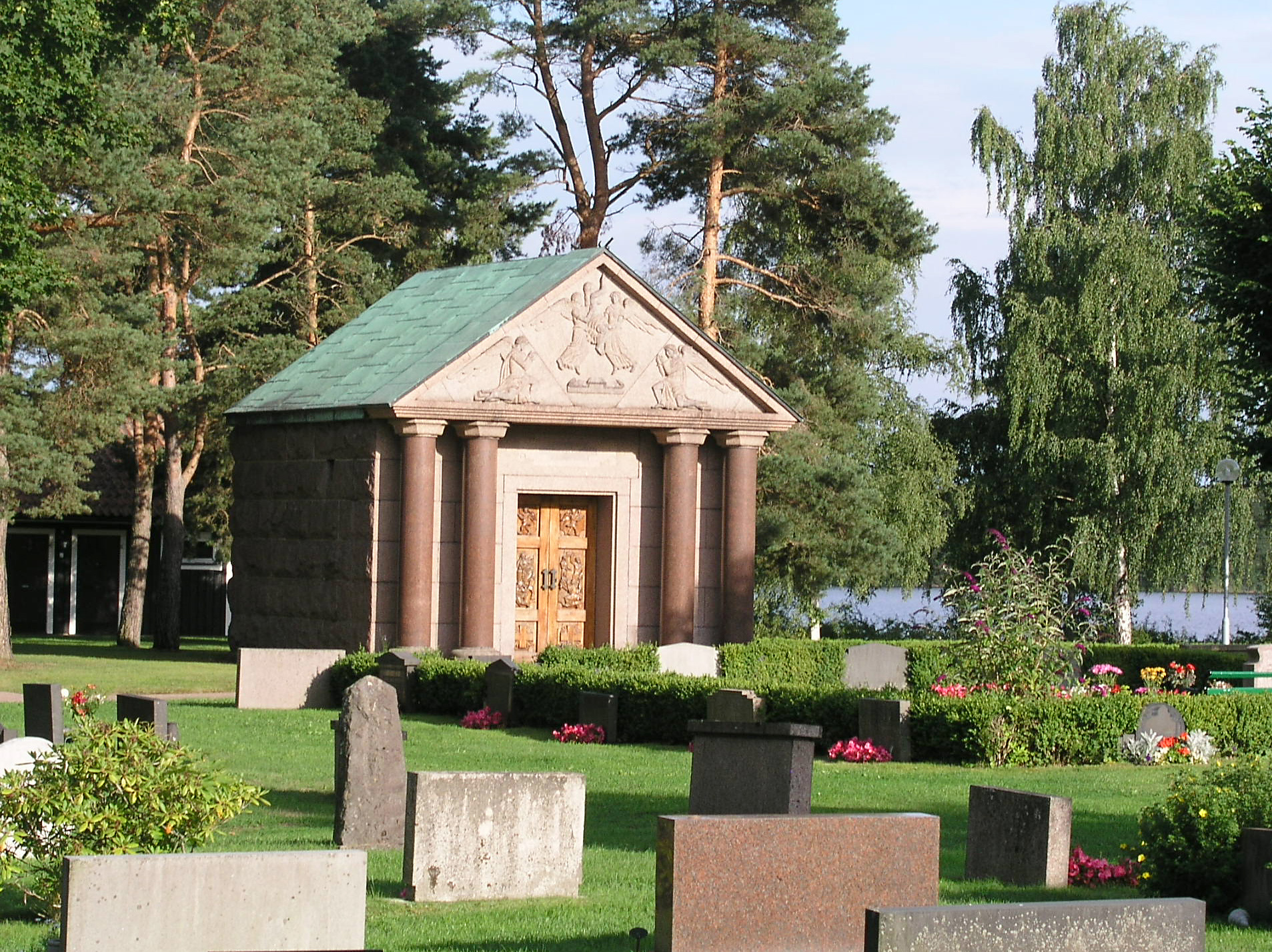 Påskallaviks kyrka / church, in Oskarshamns kommun, Mortuary. The photo was taken the 10th of August 2005 by Håkan Svensson (Xauxa).